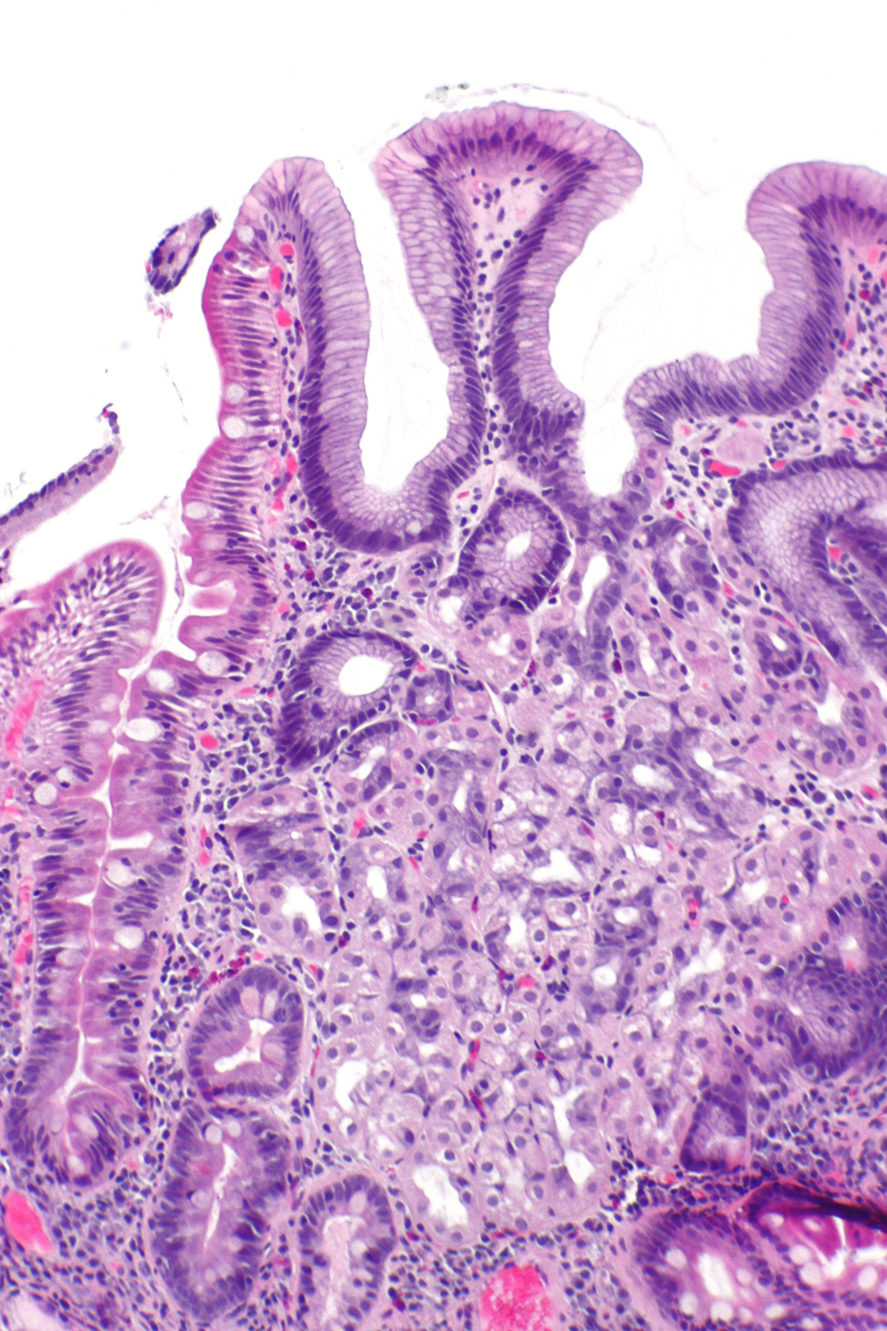 Micrograph showing gastric heterotopia in the duodenum. H&E stain. Related images GH - low mag. GH - intermed. mag. GH - high mag.